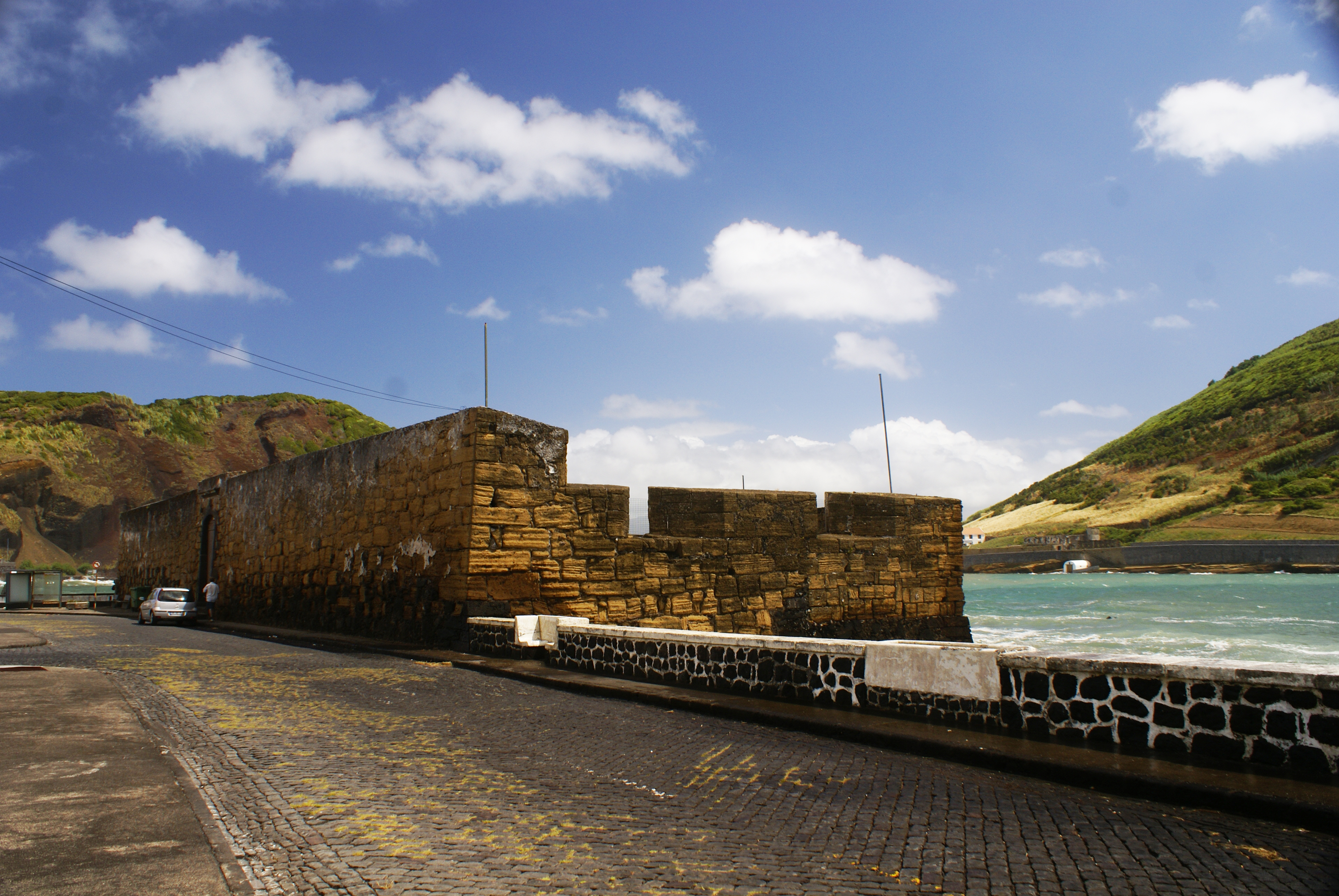 Muralhas do Forte de São Sebastião (Horta), Baía de Porto Pim, Horta, ilha do Faial, Açores, Portugal